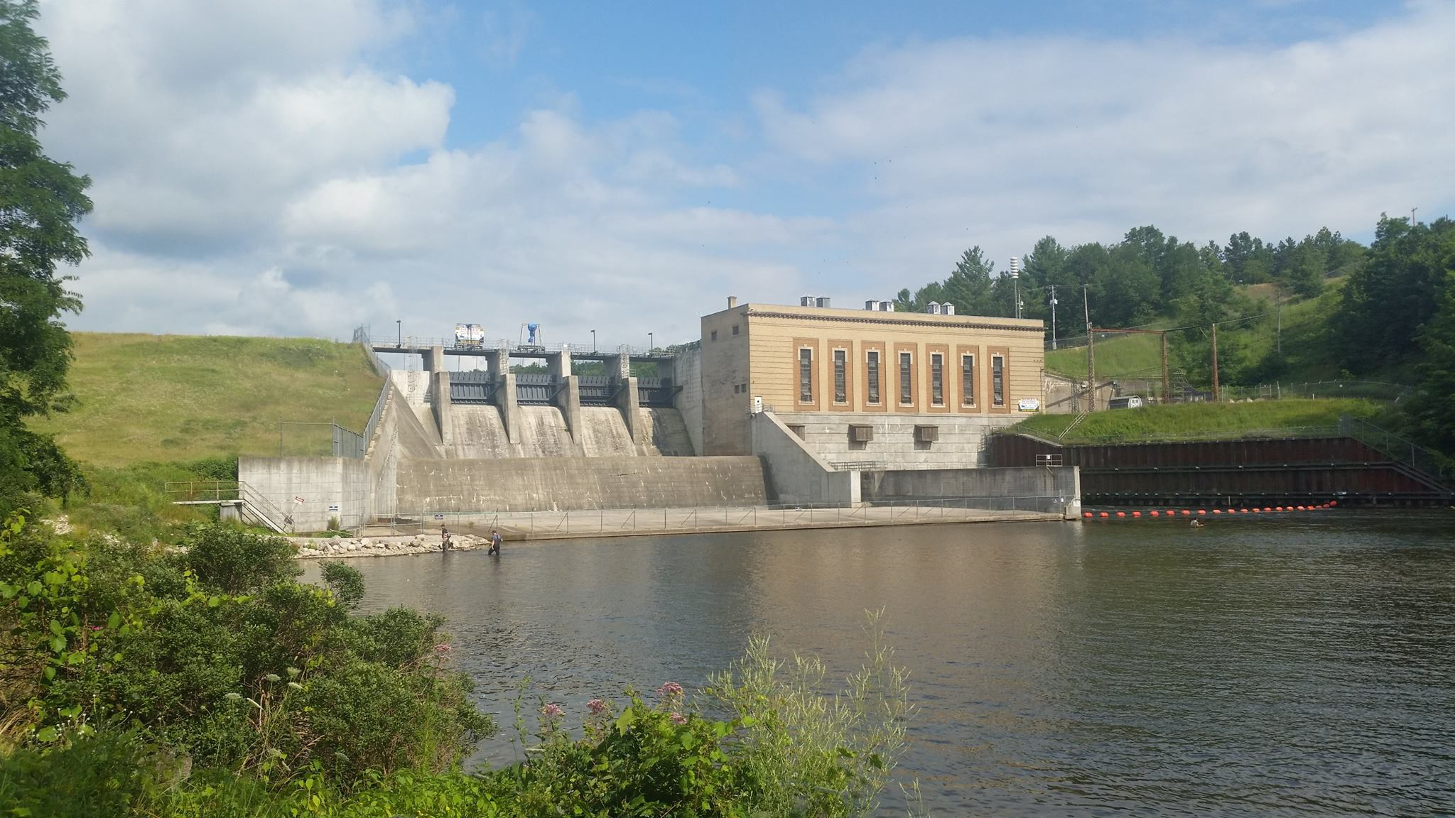 Tippy Dam